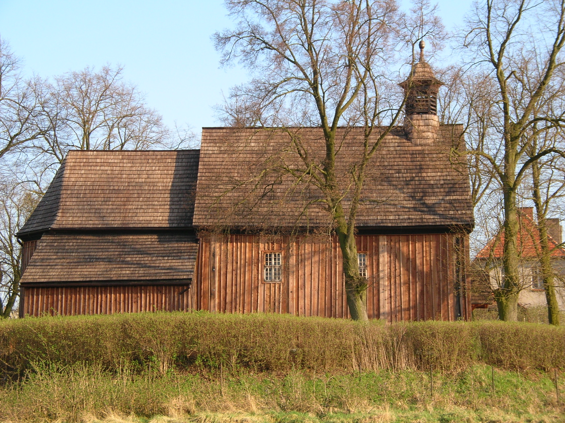 Wooden church in Parlin